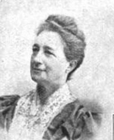 National Council of Women of the United States